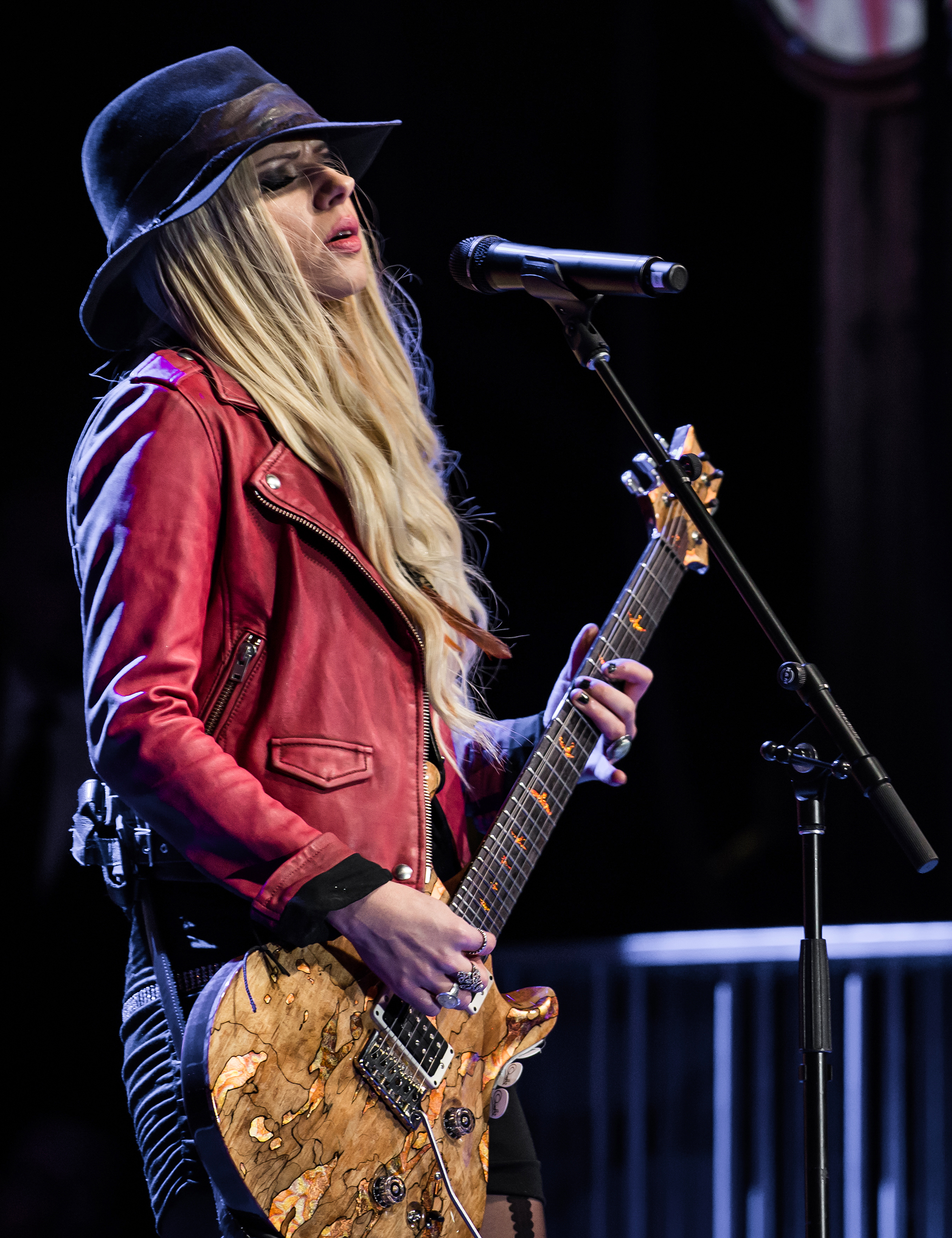 RSO Richie Sambora Orianthi at the Winter NAMM Show 2017